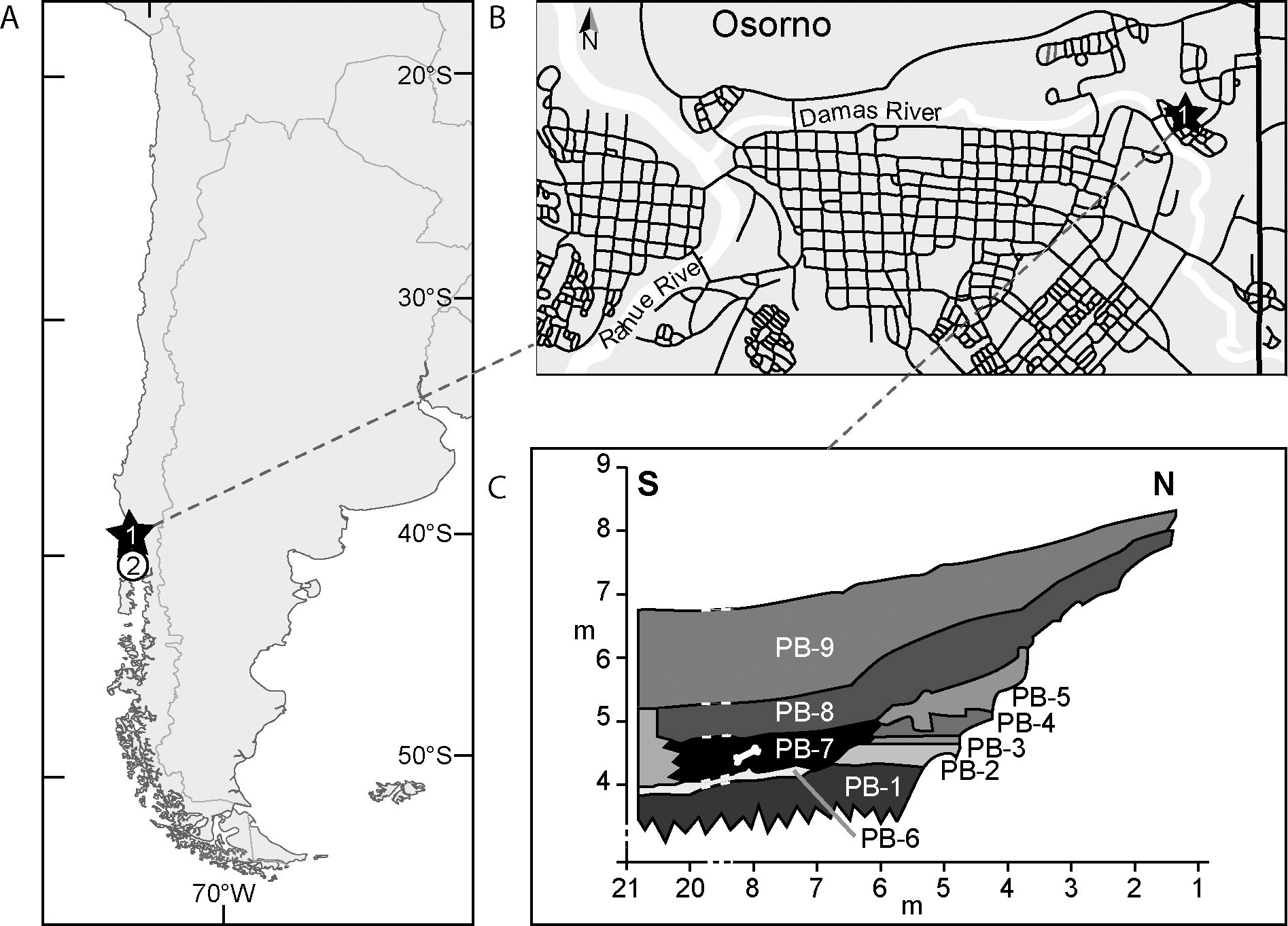 Location of archeo-palaeontological sites in southern South America dated around 12.500 14C yr BP, including the Pilauco site (black star)